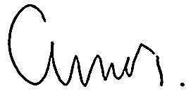 Treaty of Amsterdam - Final Act Signature by Belgian representative Erik Derycke